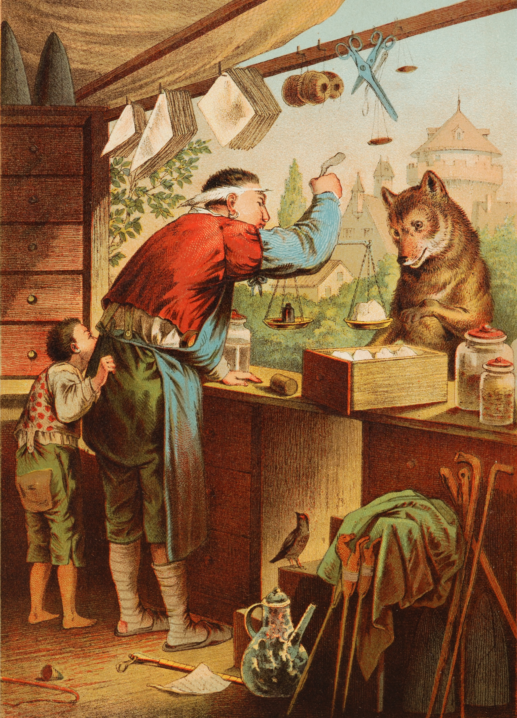 The Wolf and the Seven Young Kids, illustration by Heinrich Leutemann or Carl Offterdinger